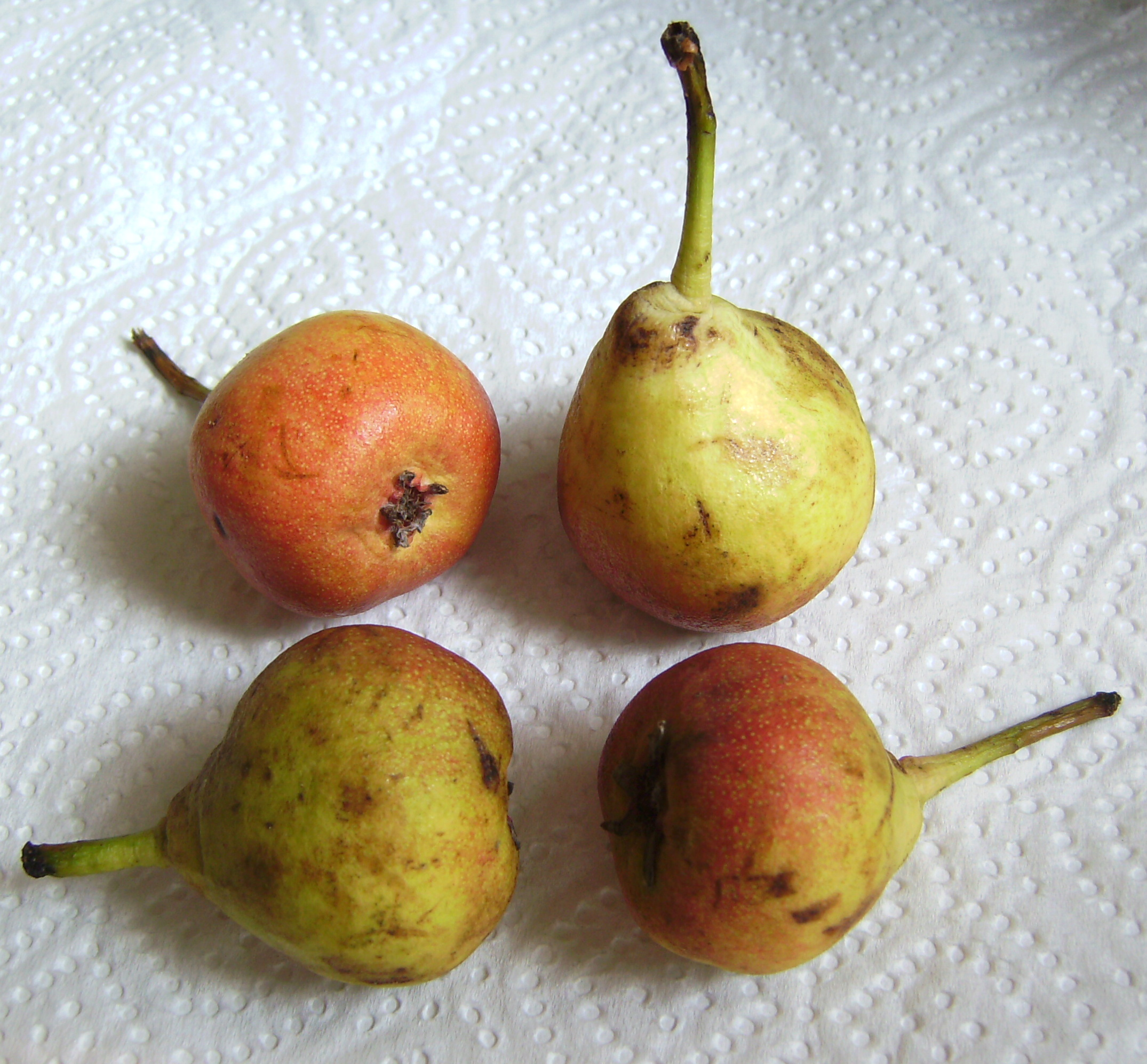 Saint John's pears (in catalan:Peres de Sant Joan) or cultivar Castell, Barcelona, Catalonia a very early and little size cultivar